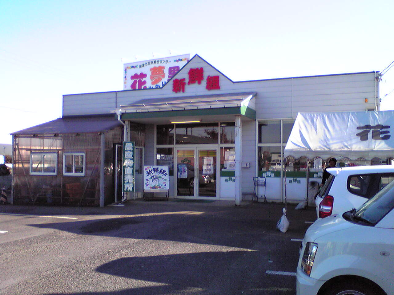 Farm products store Shinsengumi at Michinoeki Kamuri Niitsu in Niigata City, Niigata Prefecture, Japan